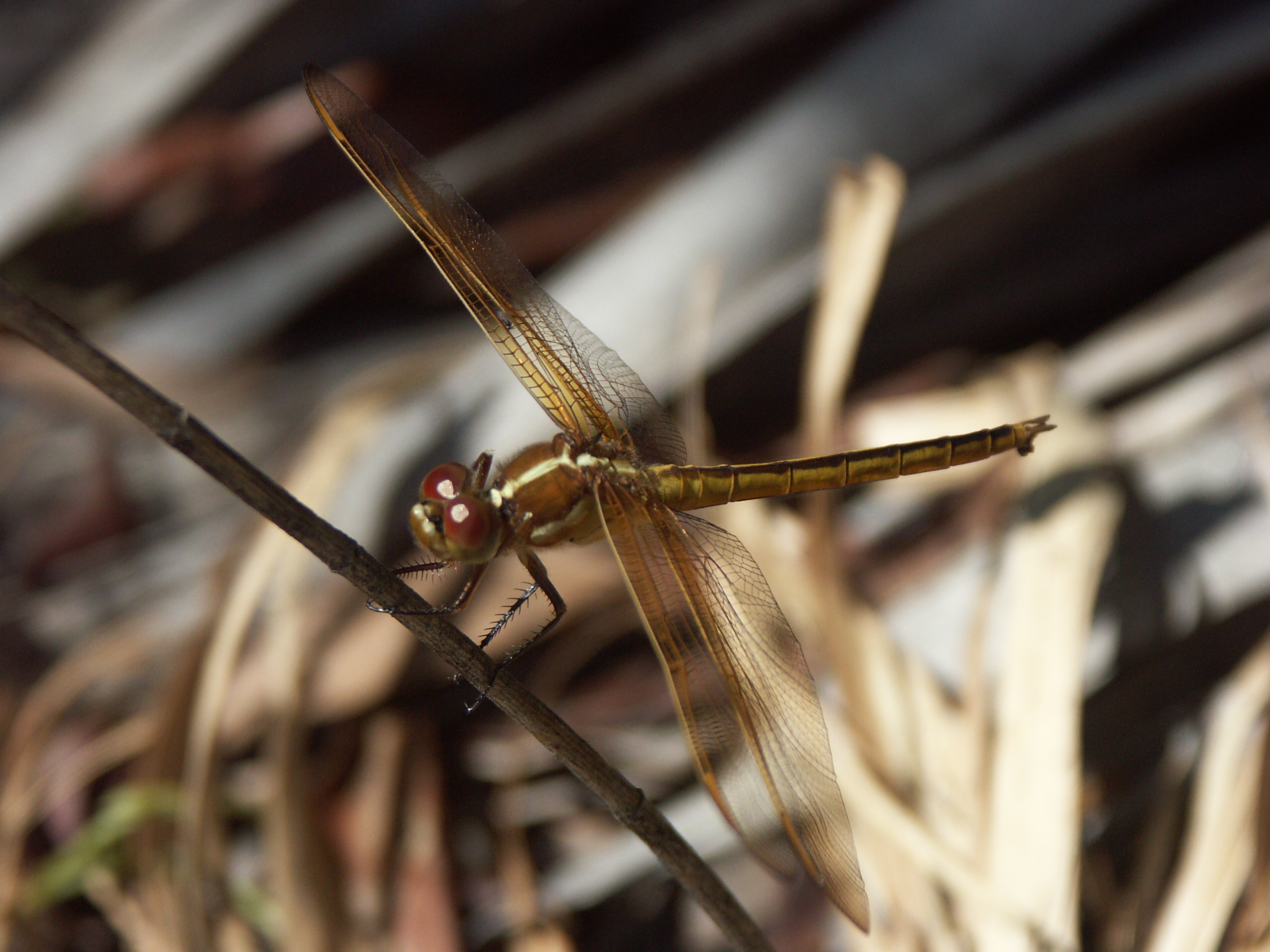 Libellula auripennis, Golden-winged Skimmer, ID Confidence: 88